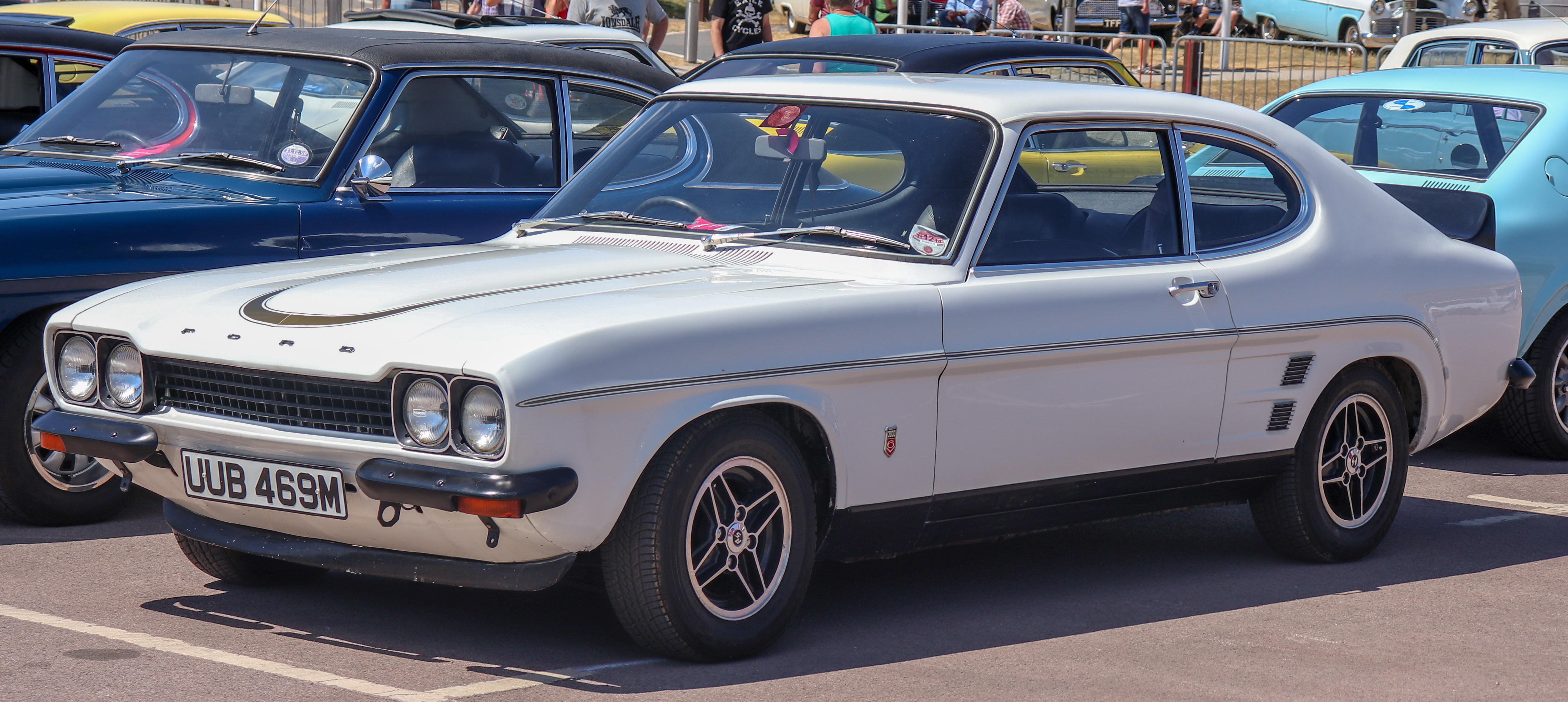 1974 Ford Capri RS 3100 Front Taken at the British Motor Museum Old Ford Rally 2018, Gaydon